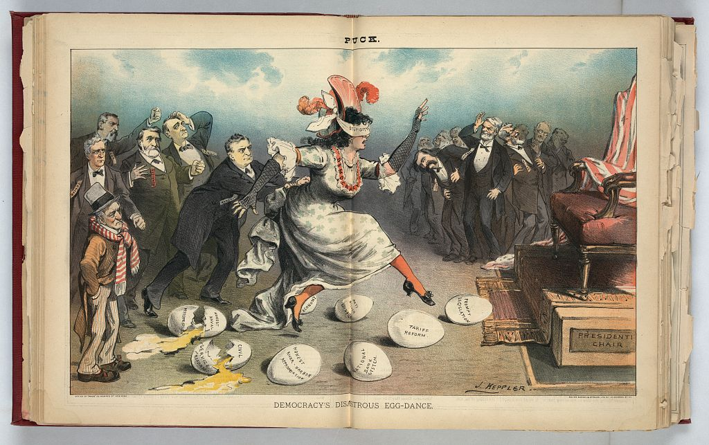 Title: Democracy's disastrous egg-dance Abstract: Illustration shows a woman labeled "Democracy" wearing a blindfold labeled "Stupidity" being pushed by Samuel J. Randall toward a chair labeled "Presidenti[al] Chair", with several eggs in the way on the ground, they are labeled "Honest Naval Appropriation, Civil Service Reform, Honest River - Harbor Appropriation, Economy, Anti-Silver Coinage, National Banking System, Tariff Reform, [and] Prompt Legislation", two of the eggs are broken; among a group of men laughing, in the background on the right, are John Logan, John Sherman, and William D. Kelley. Physical description: 1 print : chromolithograph. Notes: J. Keppler.; Copyright 1884 by Keppler & Schwarzmann.; Illus. from Puck, v. 15, no. 370, (1884 April 9), centerfold.; Title from item.